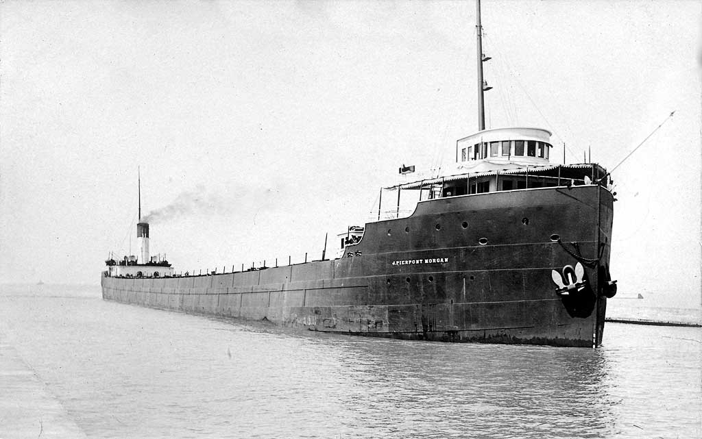 The steamer J. Pierpont Morgan entering Conneaut Harbor